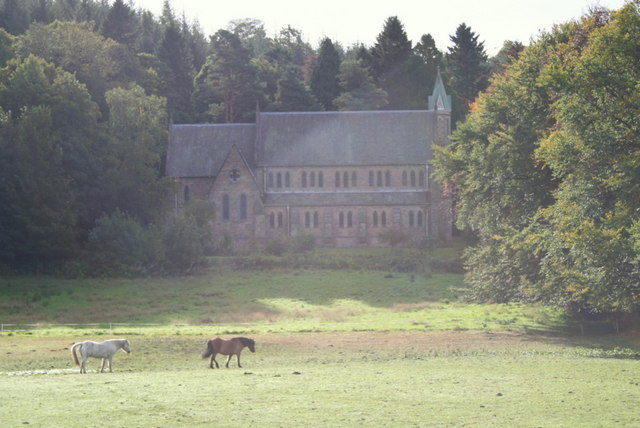 Ponies by St Margaret's Church, Aberlour